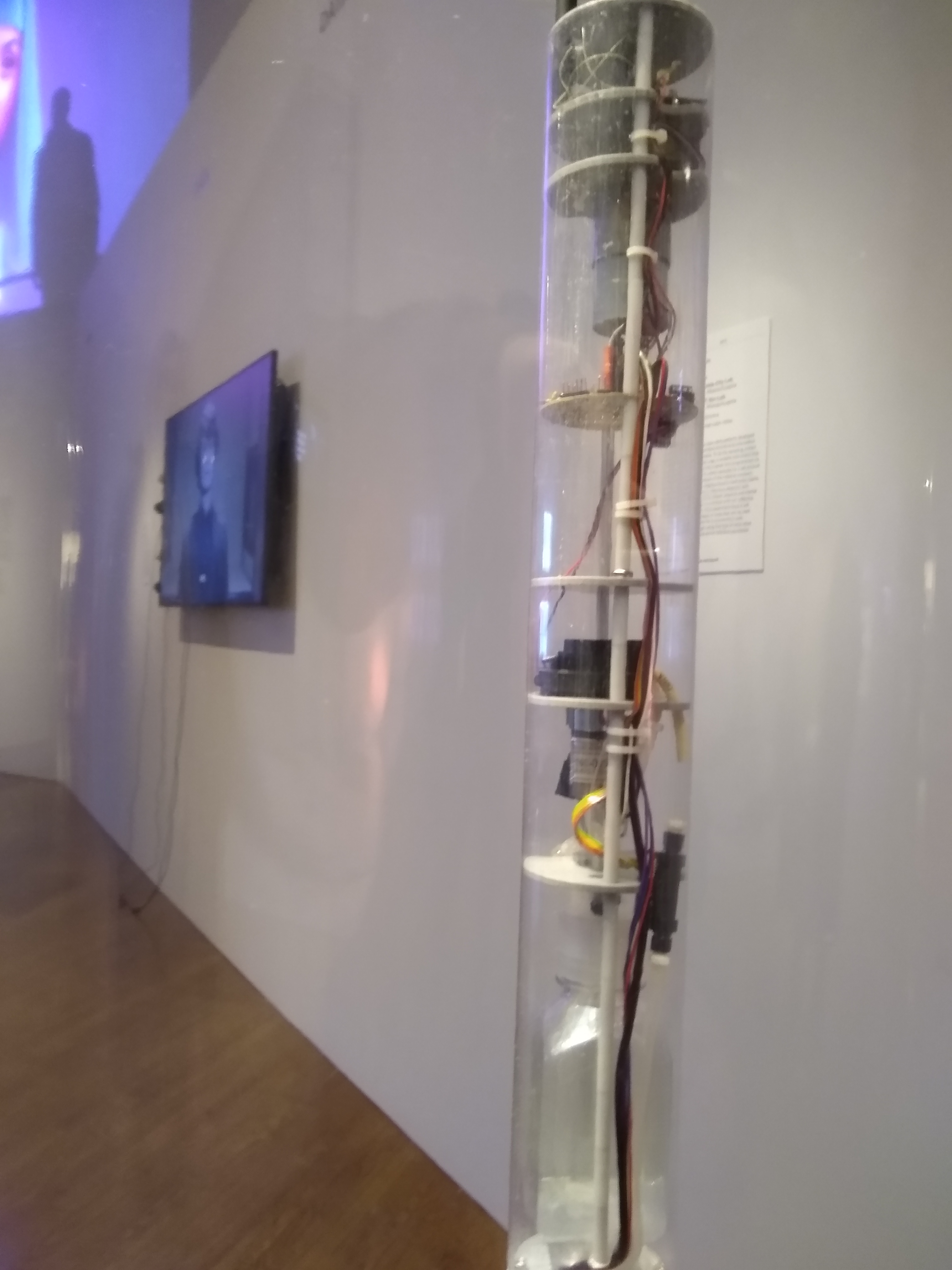 Underworlds, designed by the Senseable City Lab and the Alm Lab at MIT. Displayed as part of the exhibit "Designs for Different Futures" at the Philadelphia Museum of Art 2019-2020. Underworlds has been designed to use multiple technologies for sampling and biological measurement to monitor the sewage network of a city, giving individual readings from particular locations and neighborhoods. This information can be used for complex tracking, data visualization, and other computational analysis.